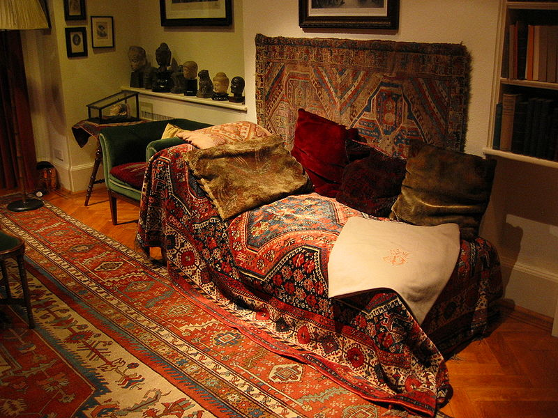 SIGMUND FREUD'S SOFA